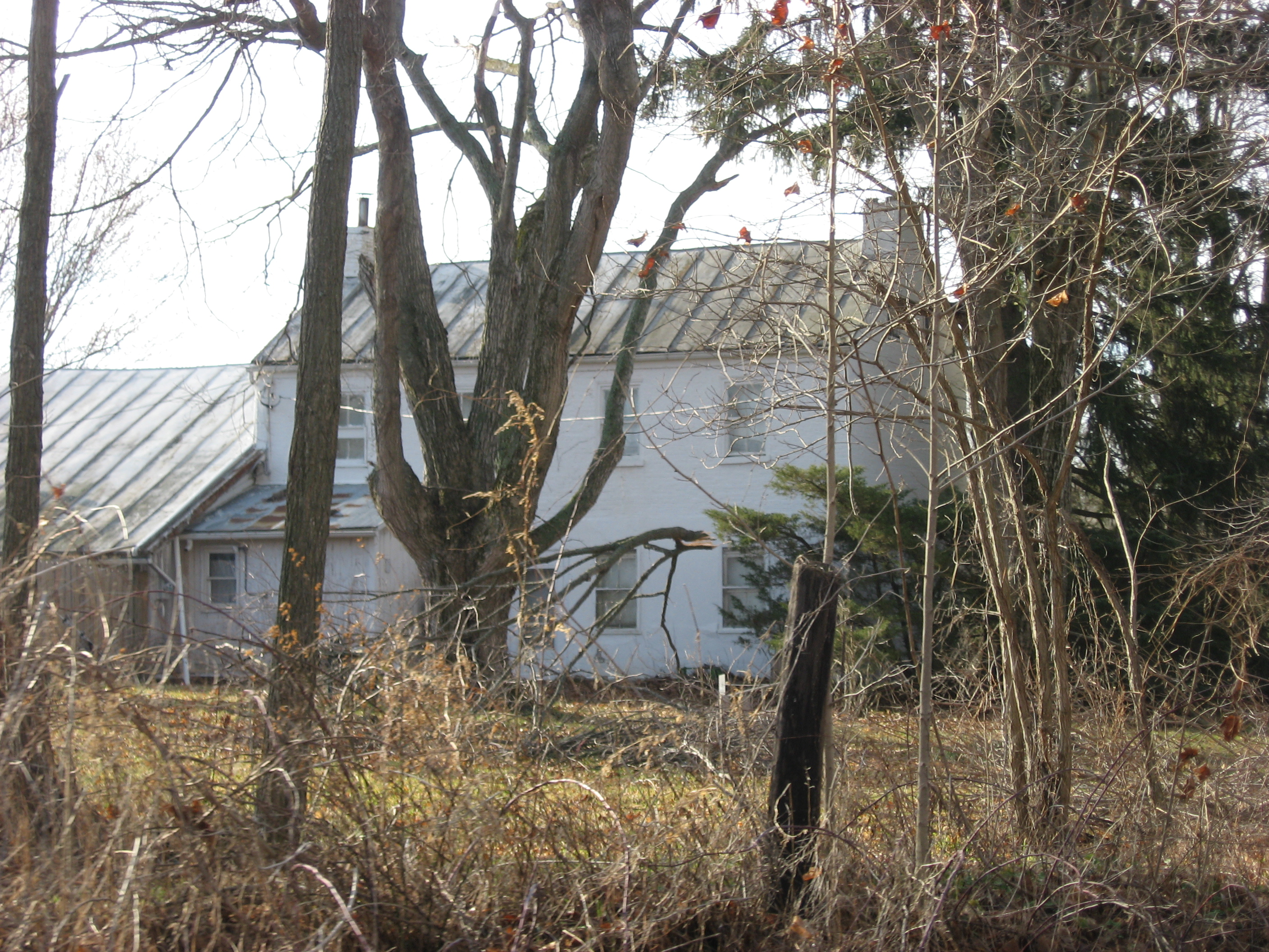 Front of the Reuben Benedict House, located at 1463 County Road 24 west of Marengo in Peru Township, Morrow County, Ohio, United States. Built in 1828, it is listed on the National Register of Historic Places.